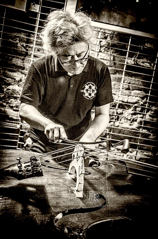 Image of Tetsu Saito by Frank Schindelbeck Jazzphotography